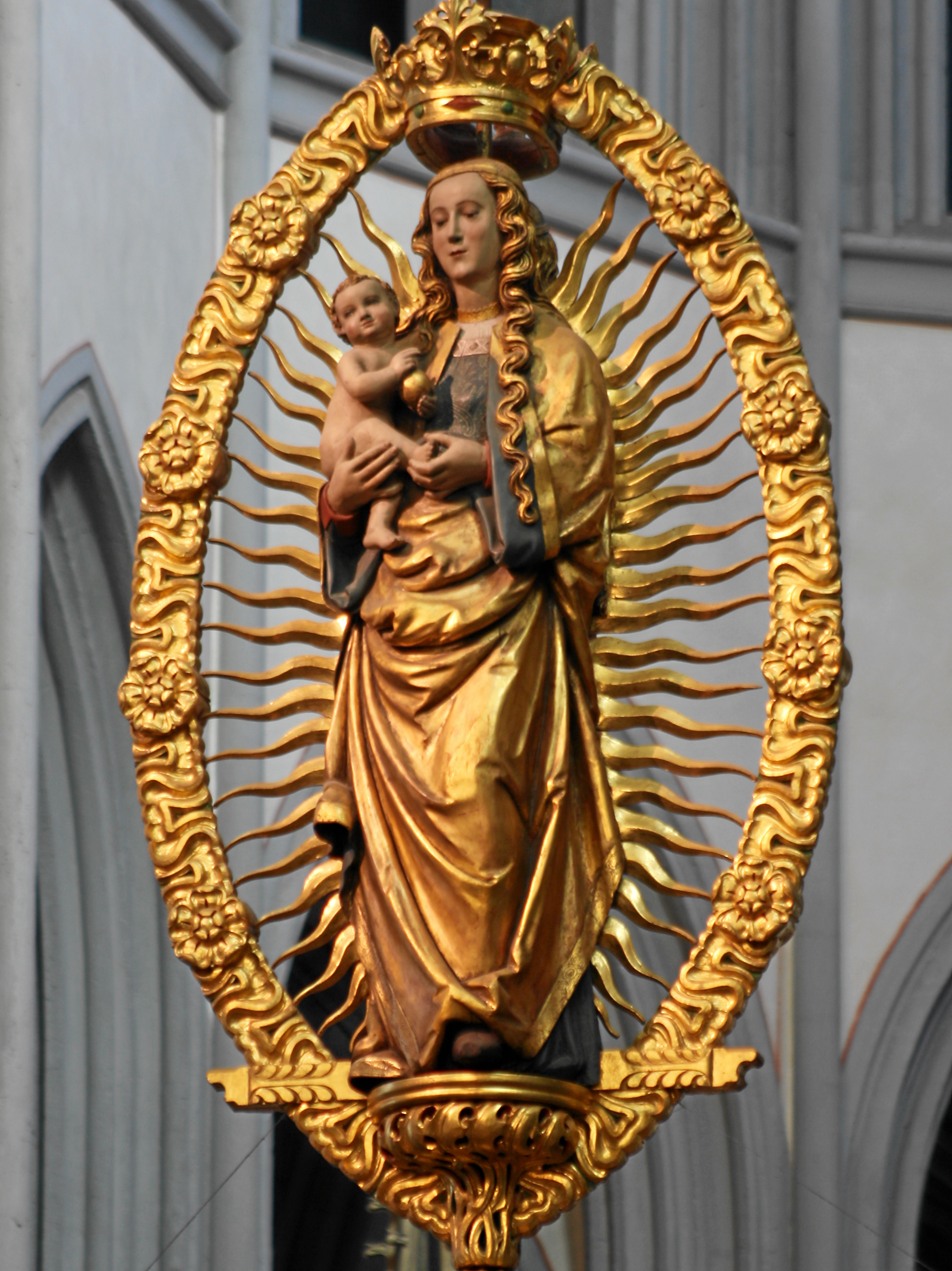 "Bergischer Dom" in Odenthal-Altenberg, Germany. Madonna, around 1530.